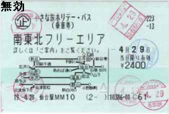 Used Chiisana Tabi Holiday Pass (literally "Small Trip Holiday Pass") ticket for the south Tohoku area